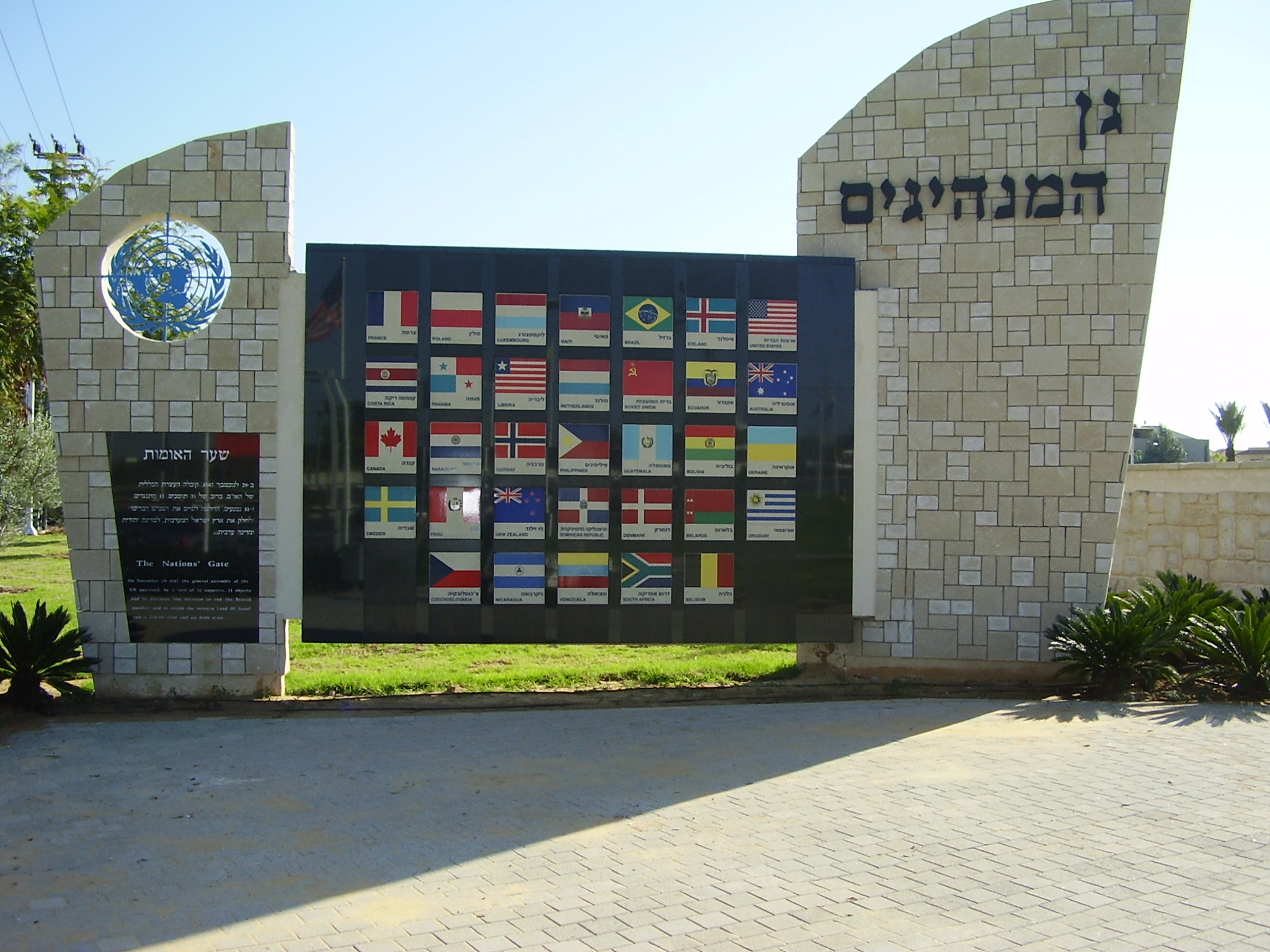 A Monument for the 33 countries that voted for the foundation of the state of Israel in 29th of November 1947, Park of the Leaders of the Nation, Rishon LeZion, Israel